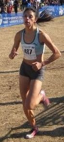 Delilah DiCrescenzo at the 2009 USA World Cross Country Championships @ Derwood, Maryland